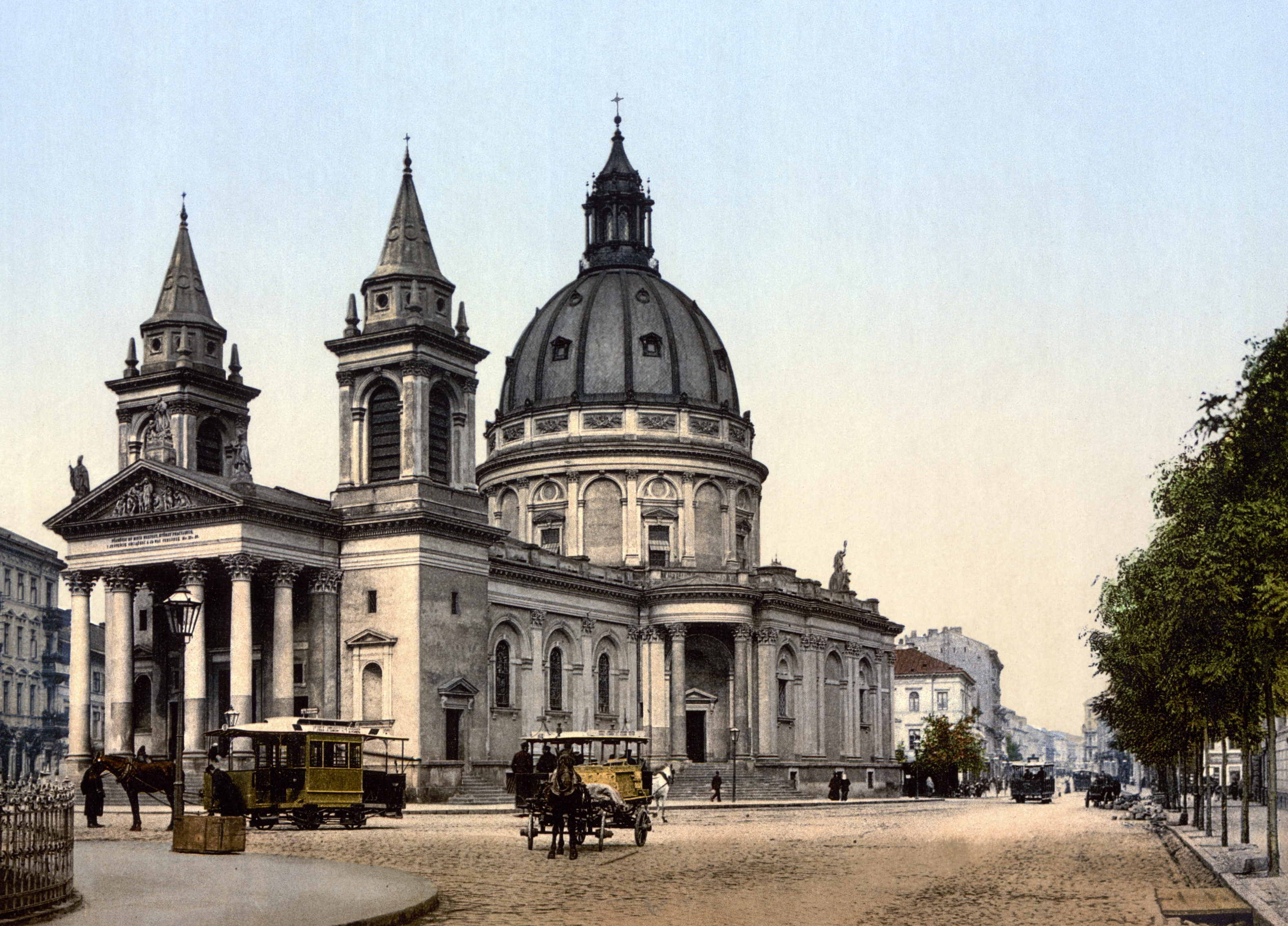 St. Alexander's Church, Warsaw about 1900.